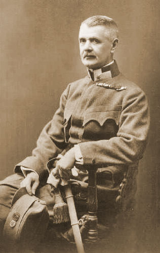 Antin Varyvoda Ukr. Антін Варивода (1869-1936), Ukrainian military, officer of Austro-Hungarian Army, commander of Ukrainian Sich Riflemen (1916)